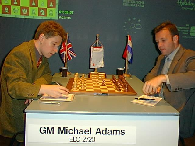 Michael Adams - Jeroen Piket, Dortmunder Schachtage 2000, Photographer Gerhard Hund.